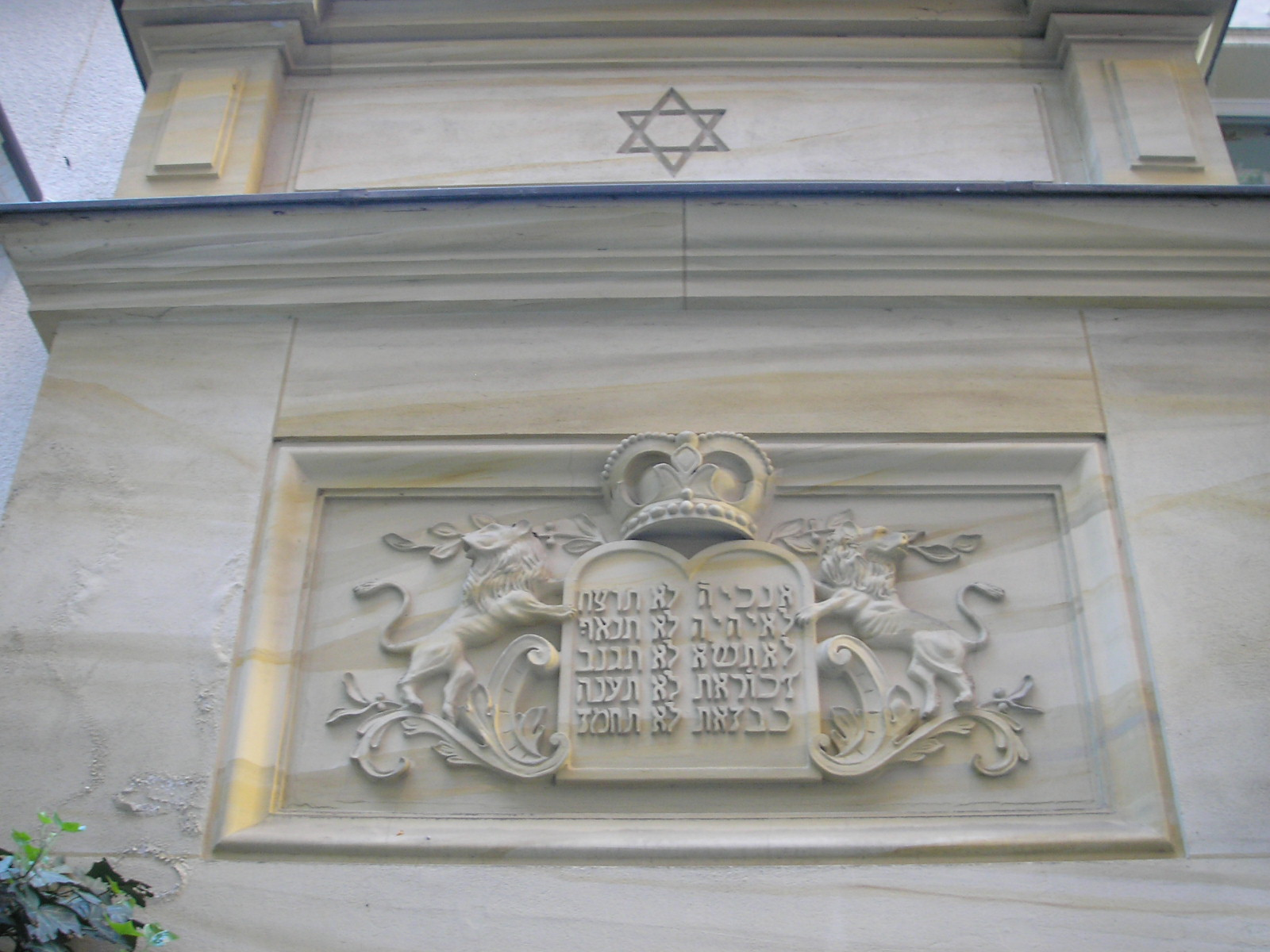 View of the former synagogue in Steglitz, Berlin. The building is located in the backyard of Düppelstrasse 41. The renovation of the building goes back to the initiative "Haus Wolfenstein".